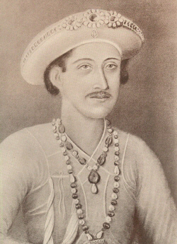 Najm ud-din Ali Khan